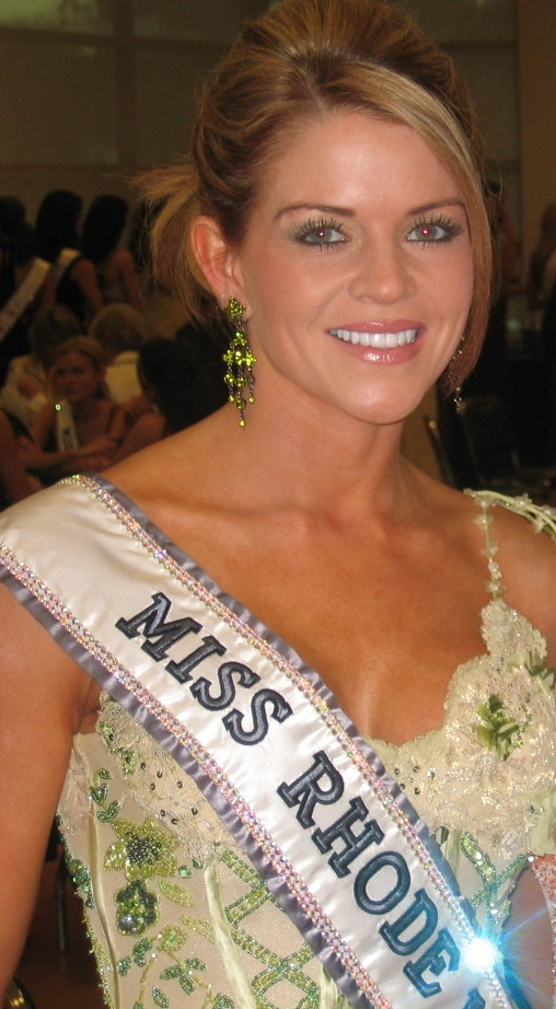 Leeann Tindley (Miss Rhode Island USA 2006), in a picture taken during a party prior to the Miss USA 2006 pageant.